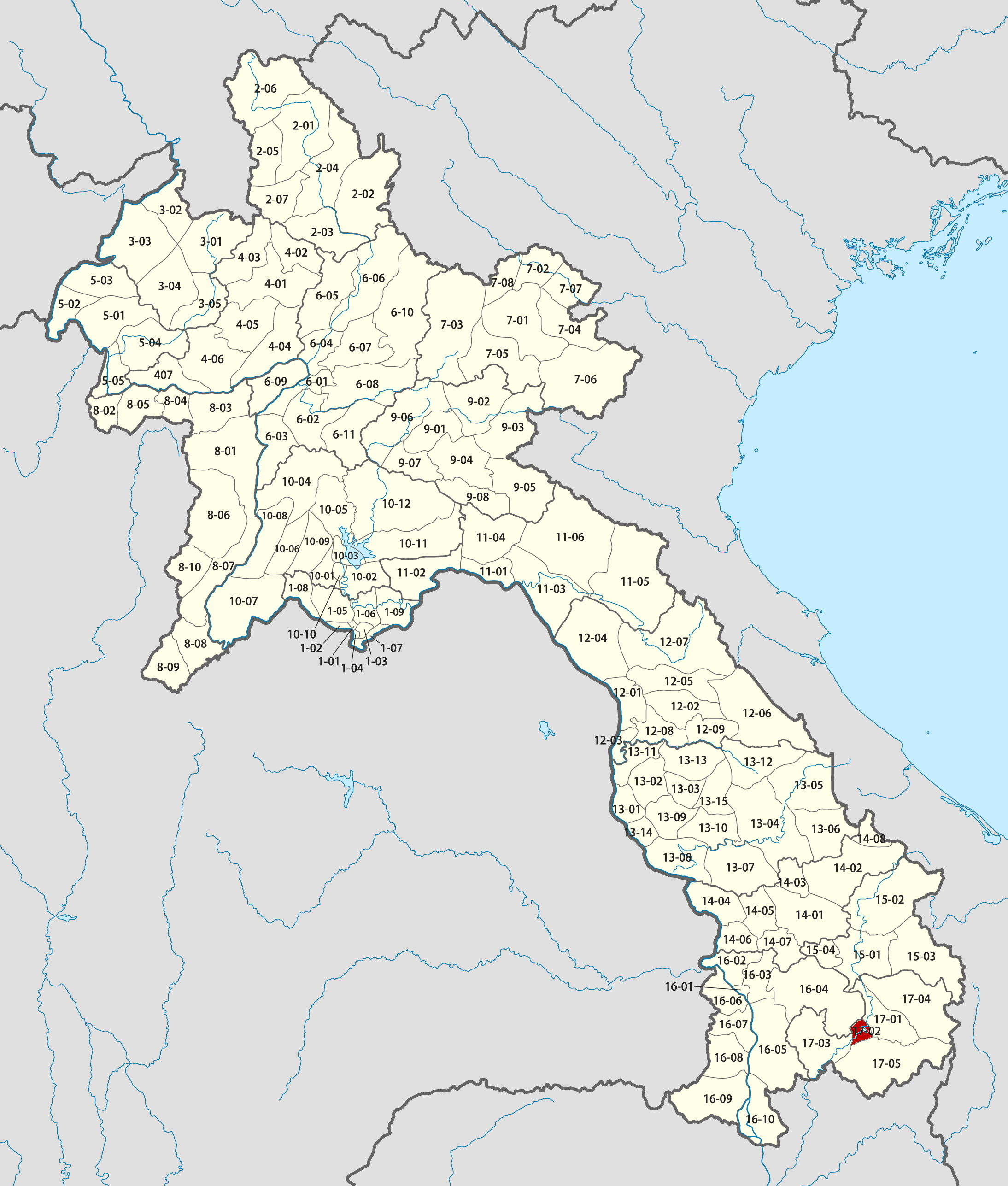 Samakkhixay District in Laos